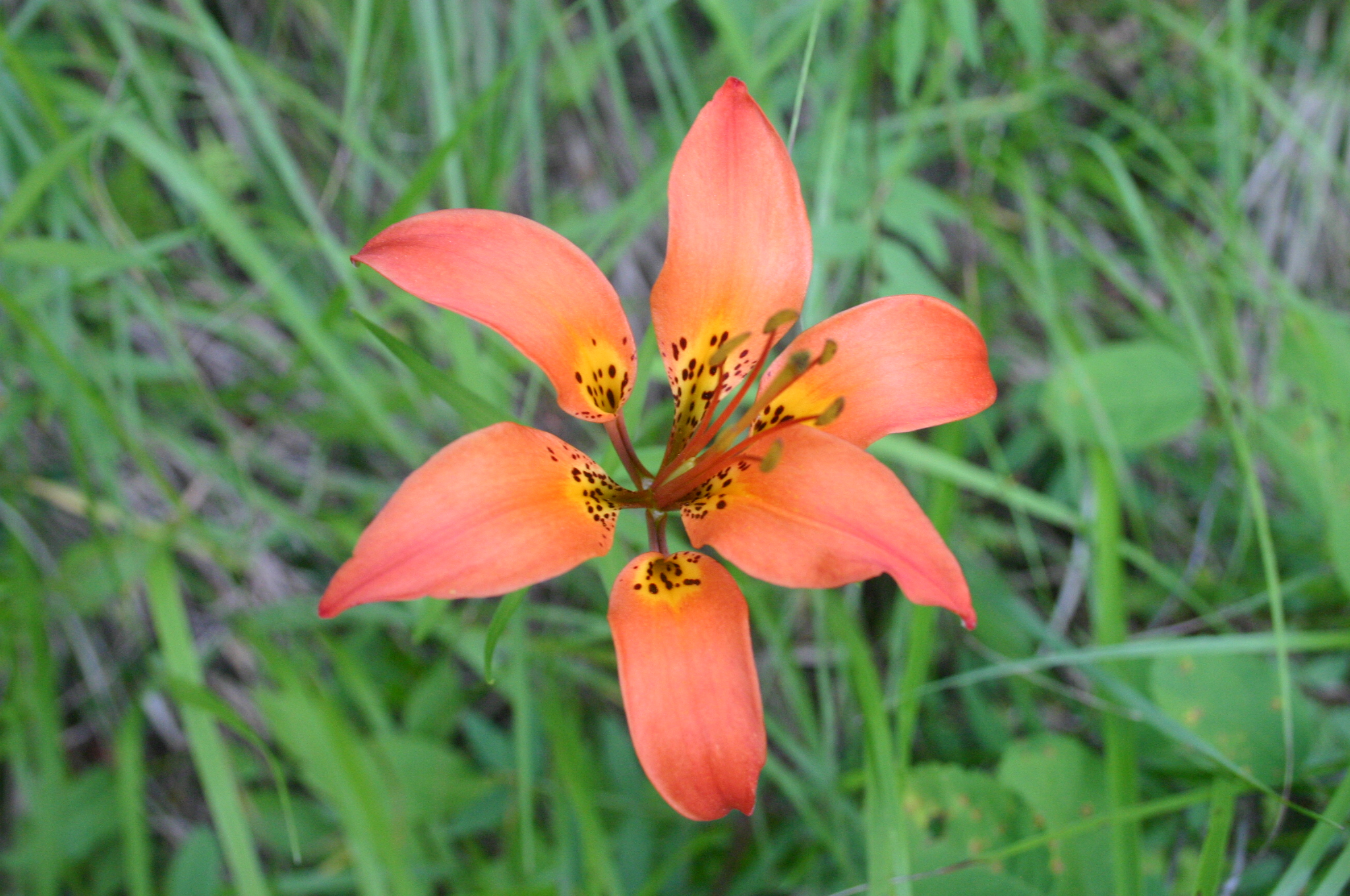 Lilium philadelphicum — Wood Lily, Western Red Lily. Orange selection of native lily. Along Dog Lake Trail, Kootenay National Park, British Columbia, Canada.